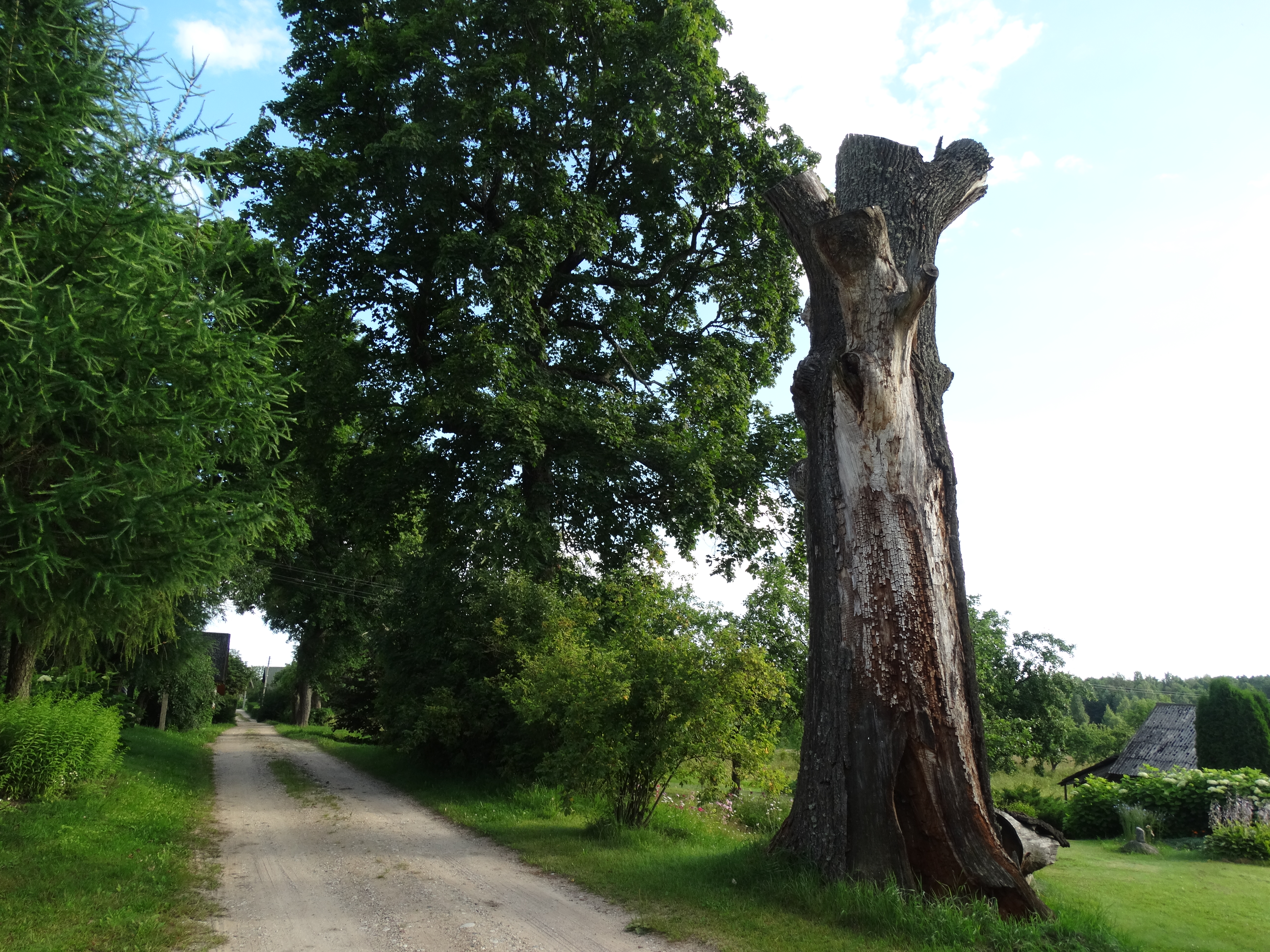 Oak tree (first) in Kretuonys, Švenčionys District, Lithuania